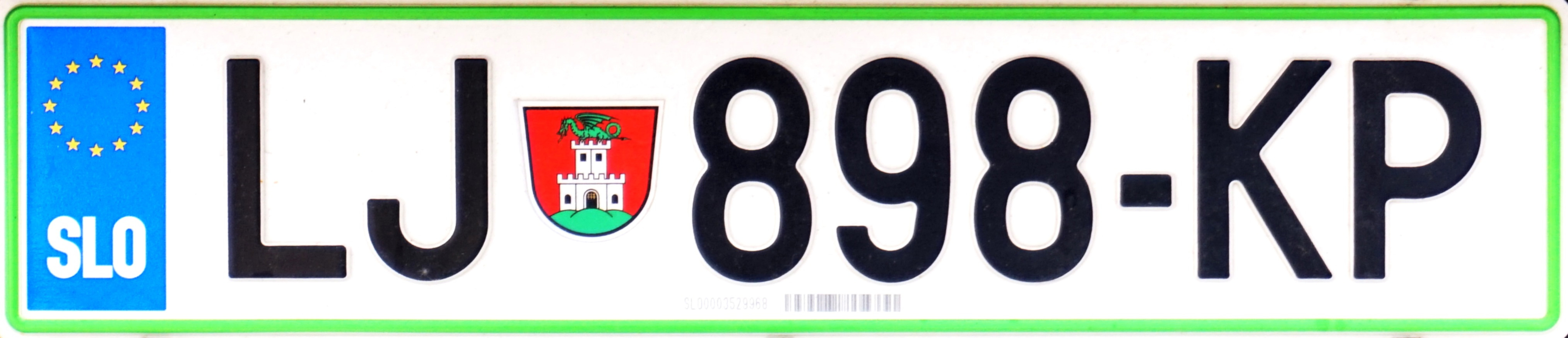 Slovenian number plate with district code and sticker of Ljubljana administrative unit